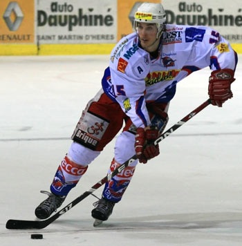 Stéphane Gervais, playing for les Dauphins d'Epinal during a game in Grenoble.